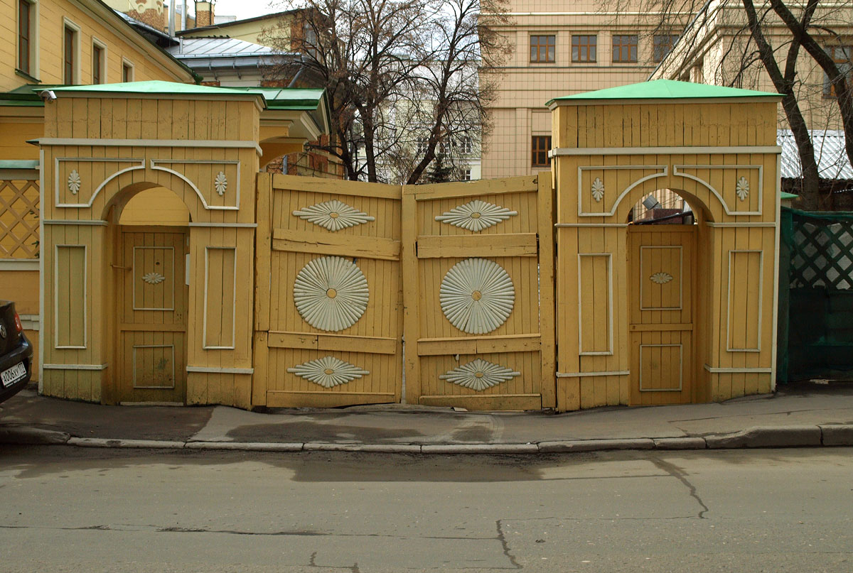 Gates of Polivanov House, Denezhny Lane, Moscow. Original design of 1820s, actual woodwork probably a latter replacement.